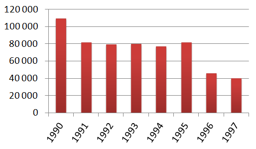 Chart showing Rover Metro / Rover 100 production from 1990 to 1997. 1990 figure includes Austin/MG Metro production.